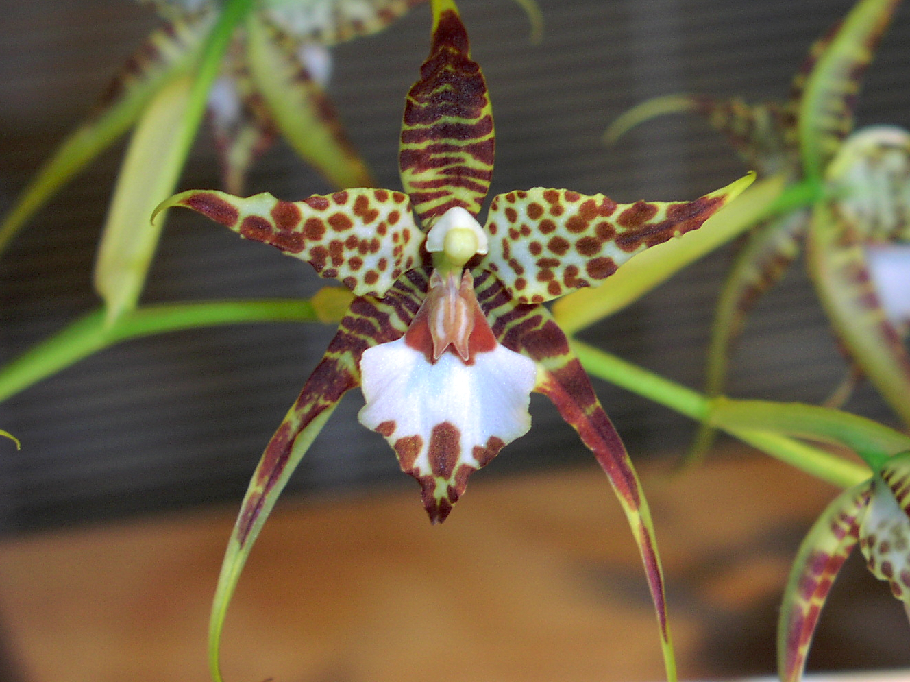 Widespread species from Mexico to Venezuela.